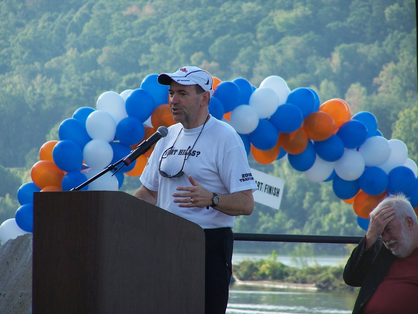 Huckabee opens the Big Dam Bridge